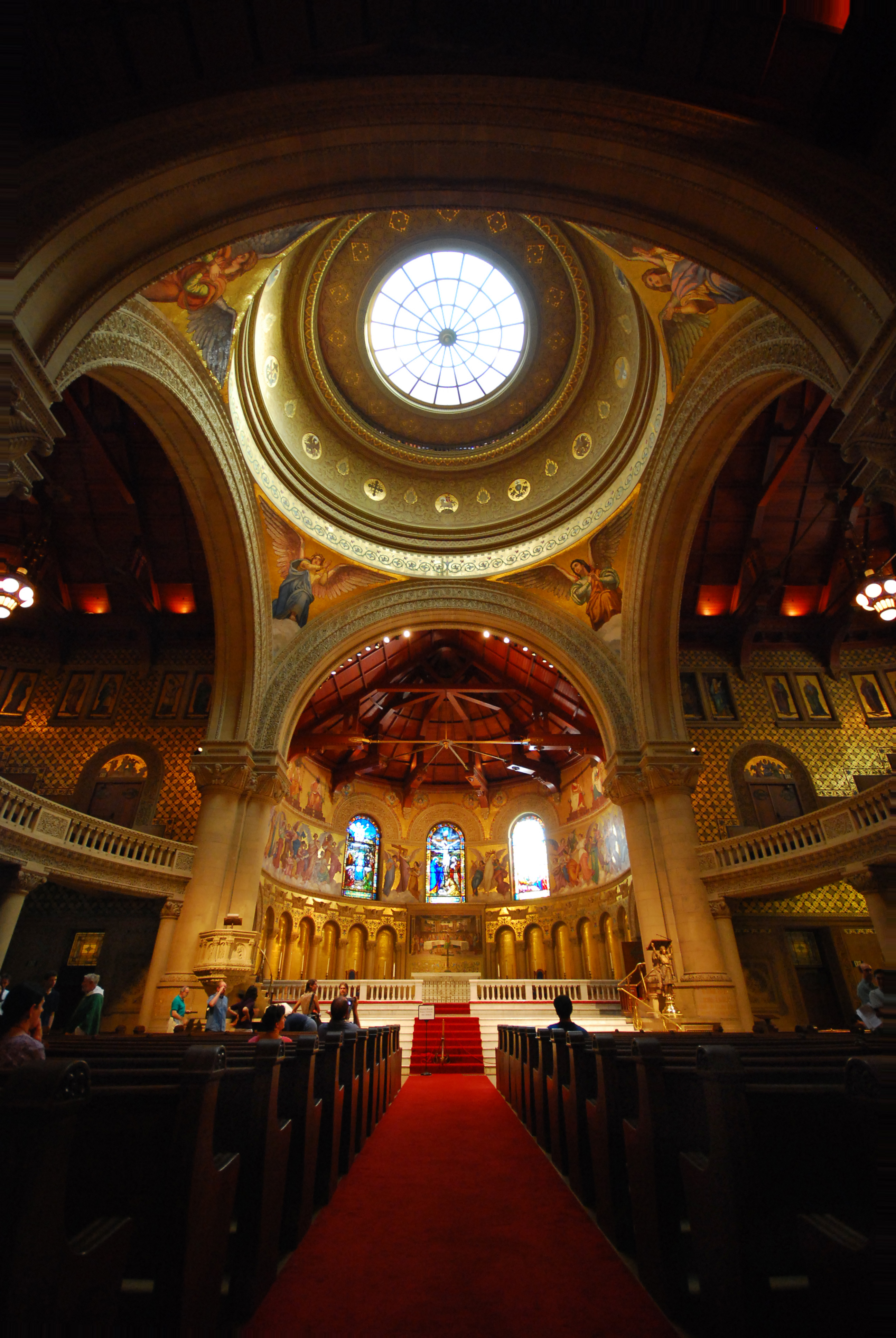 Stanford Memorial Church Interior